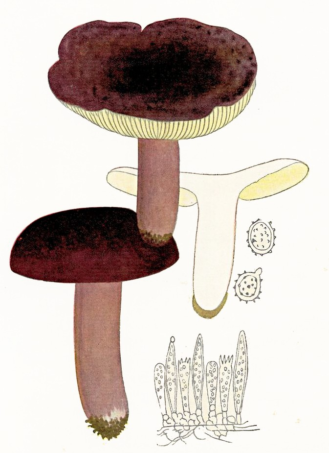 Copyright © 2001-2012 Gruppo Micologico «G. Bresadola» [1] (This site is hosted by the server of the Science Museum.) Russula queletii var. fuscorubra is a synonmy of Russula torulosa var. fuscorubra (Bres.) J. Blum and Russula fuscorubra (Bres.) J. Blum